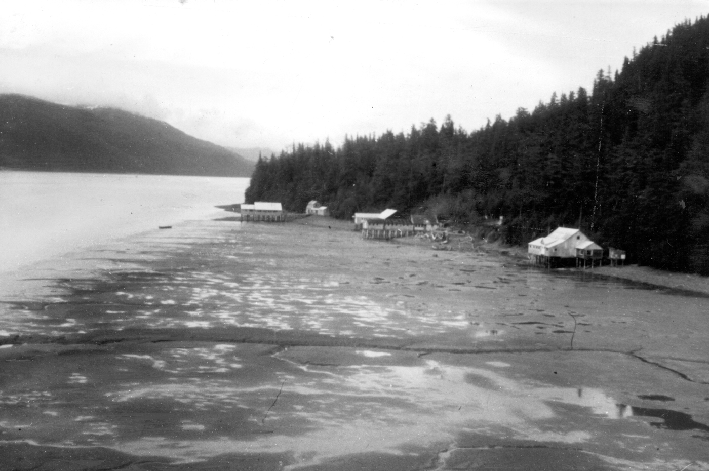 USGS description: "Alaska Earthquake March 27, 1964. Canneries and fishermen's homes along Orca Inlet in Prince William Sound placed above the reach of most tides due to about 6 feet of uplift. Photo was taken at a 9-foot tide stage, which would have reached beneath the docks prior to the earthquake. Photo by G. Plafker, July 27, 1964. Figure 28, U.S. Geological Survey Professional paper 543-I. "